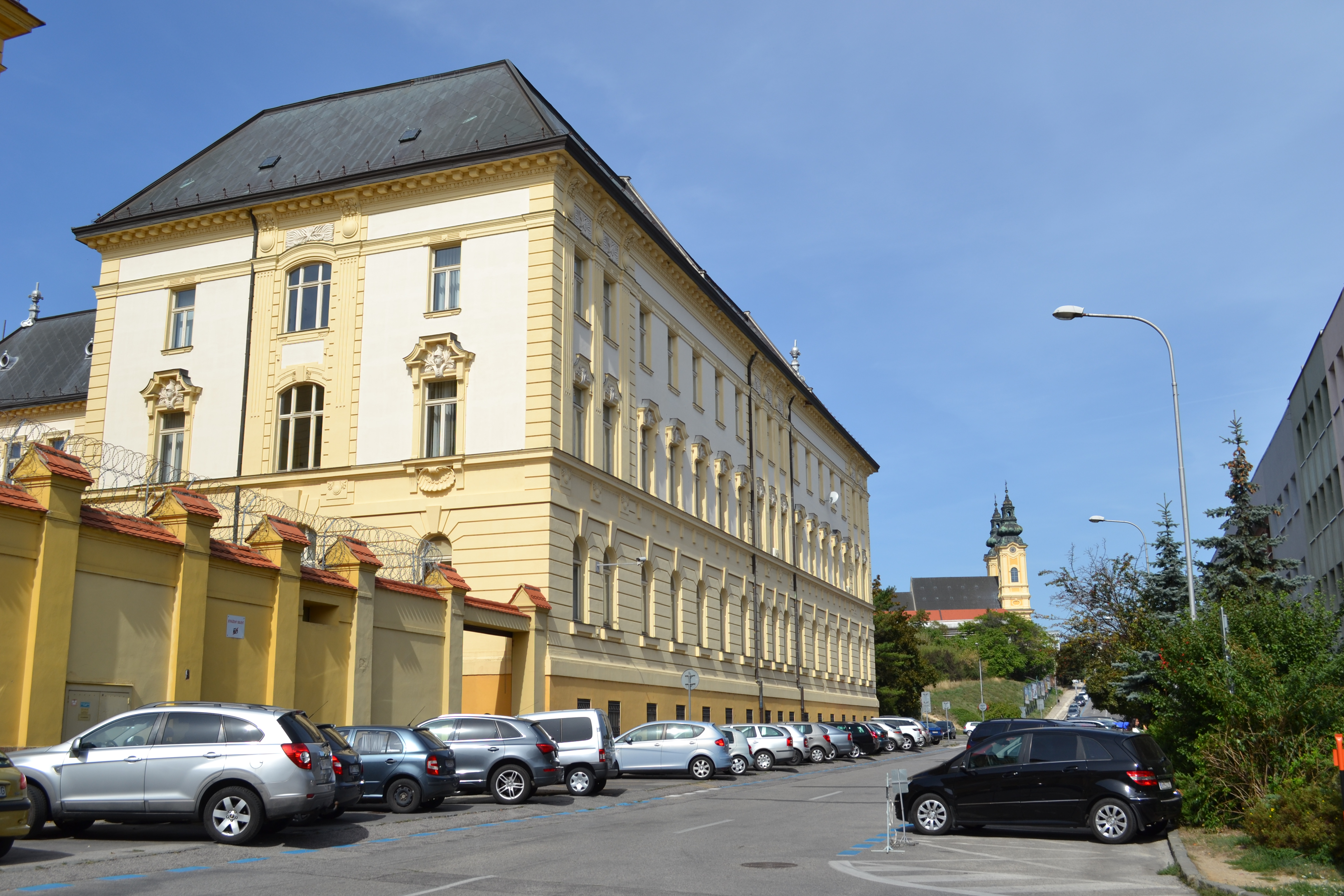 Memorial building, City Palace, Štúr street 9Slovenčina: Pamätná budova, mestský palác, Štúrova ul. 9